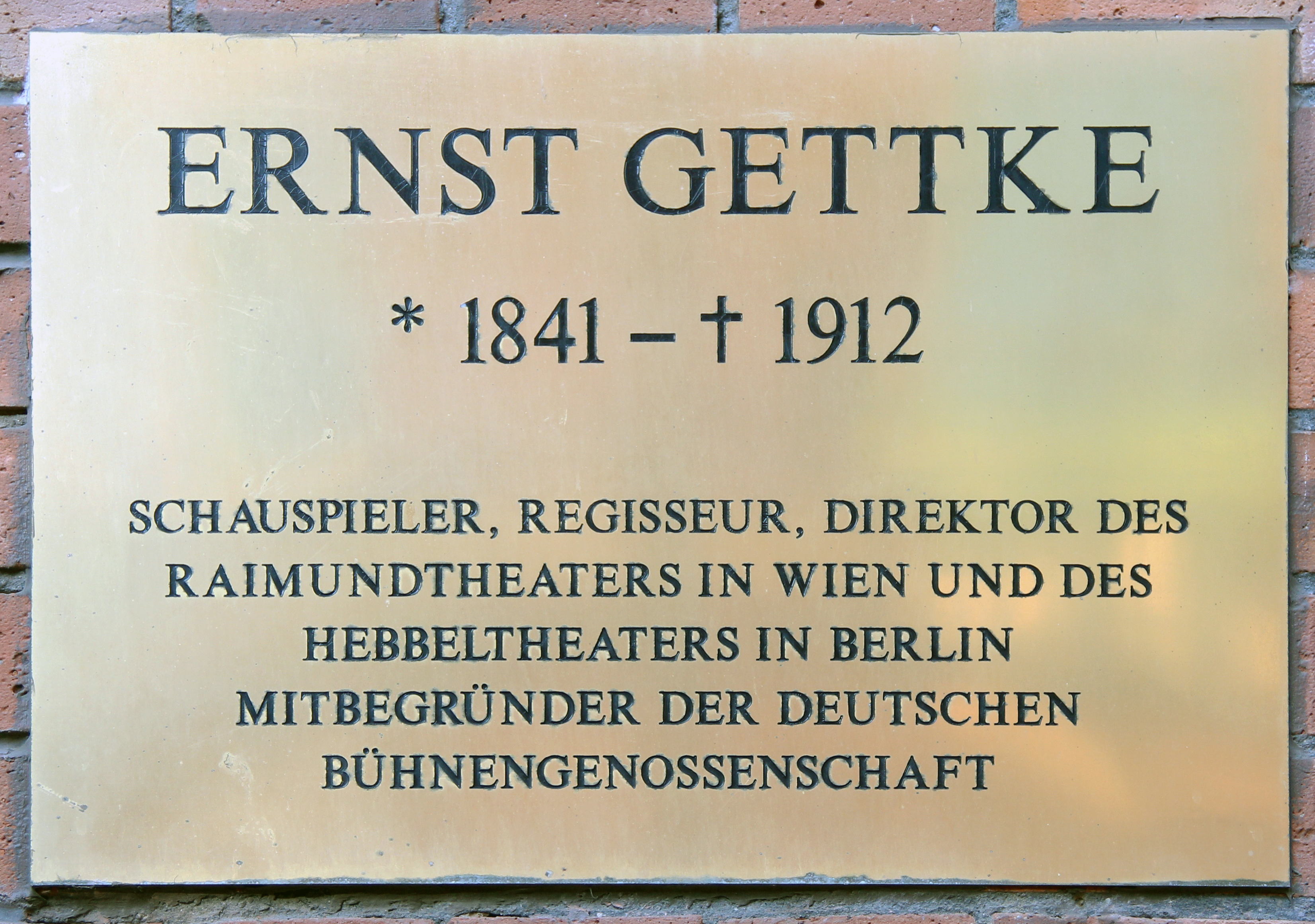 Memorial plaque, Ernst Gettke, Möckernstraße 68, Berlin-Kreuzberg, Germany